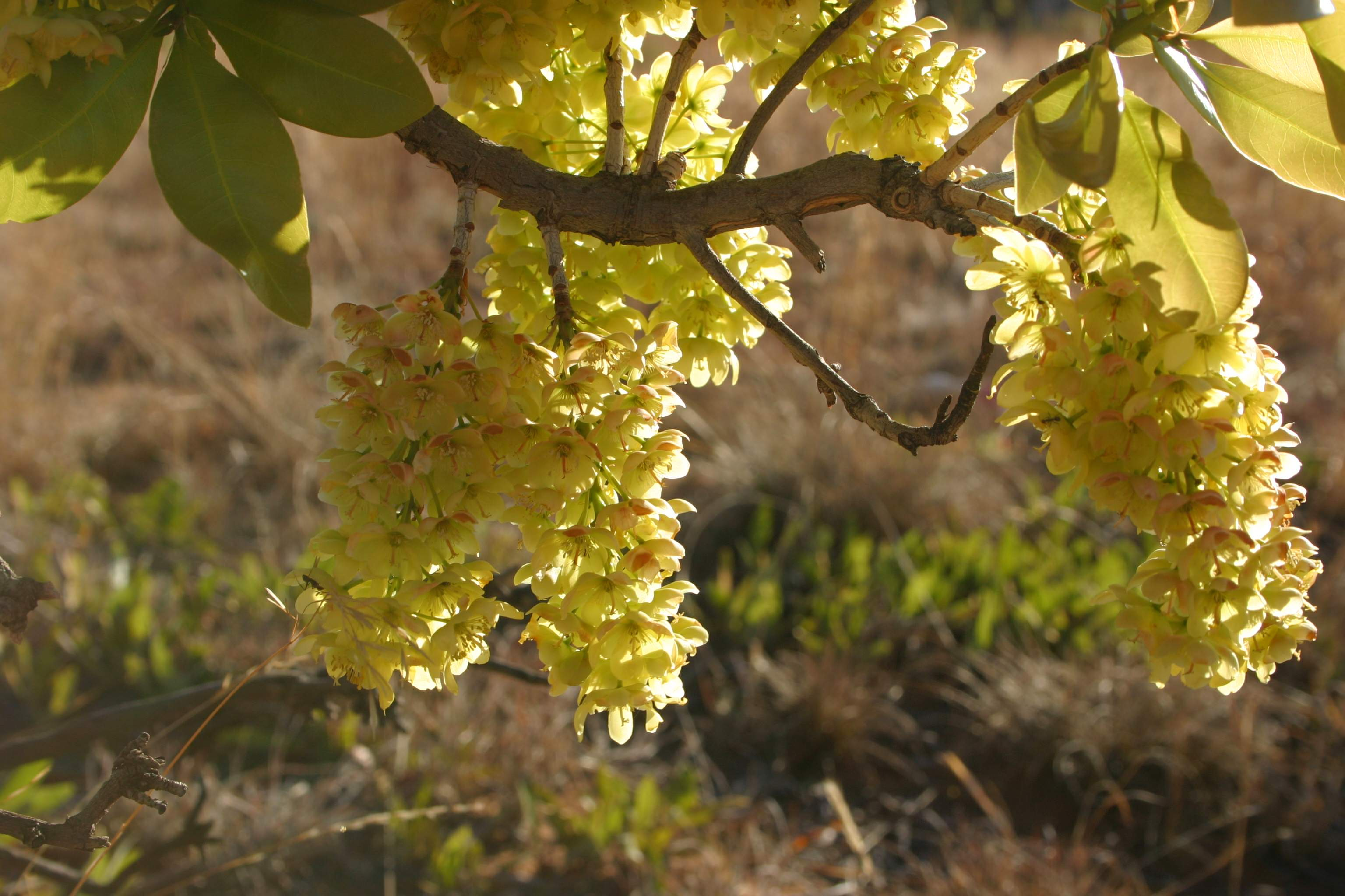 Ochna pulchra flowers, Magaliesberg, South Africa